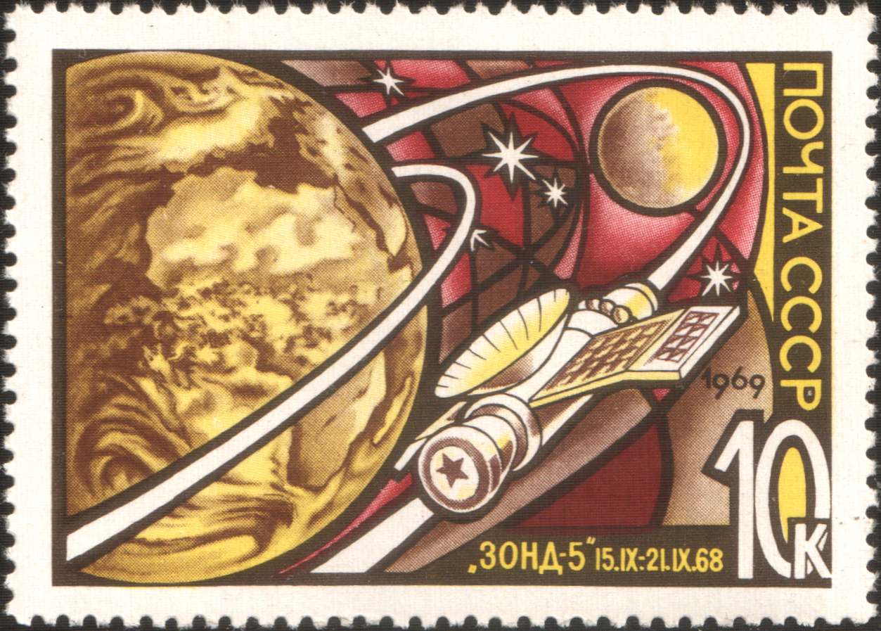 USSR stampː Zond 5. Seriesː National Cosmonautics Day